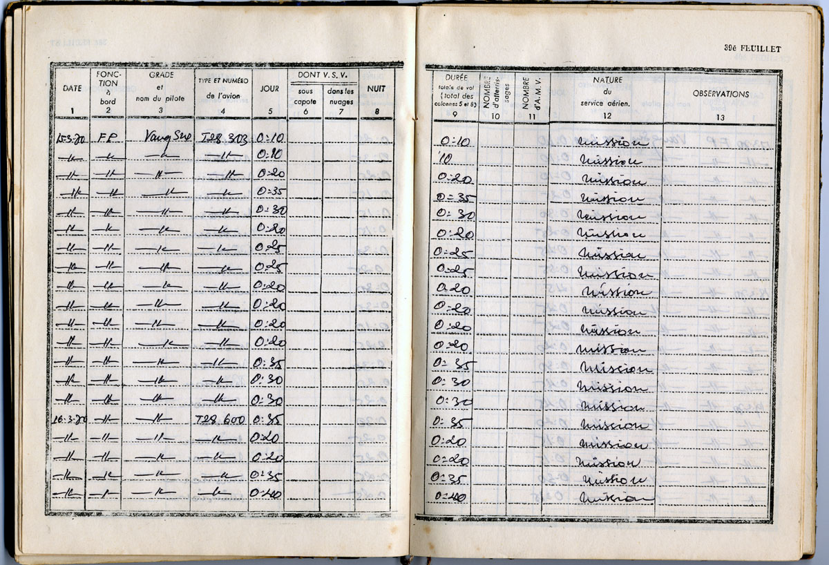 This is scan from Vang Seu's flight log showing the 15 sorties flown in one day. This flight log is one of two--the second reportedly lost when he was shot down by enemy fire.